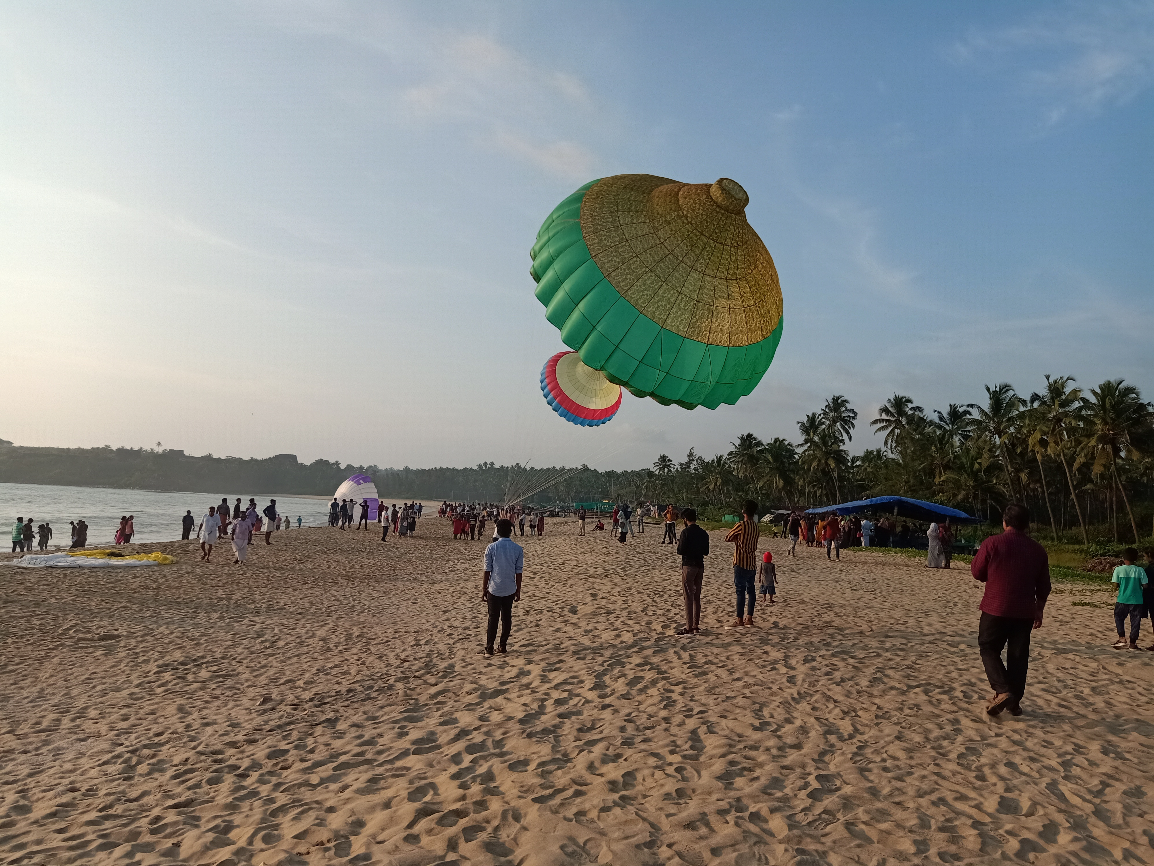 Kite festival at Bekal Pallikkara Beach of Kasaragod Dist in connection with the Kerala State School Kalolsavam November 2019